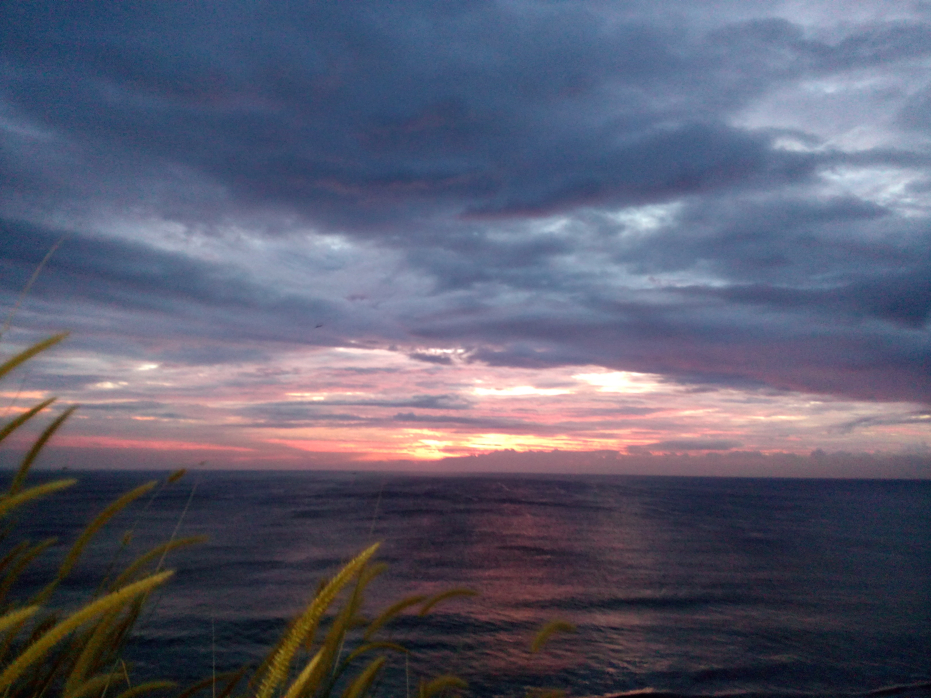 Varkkala